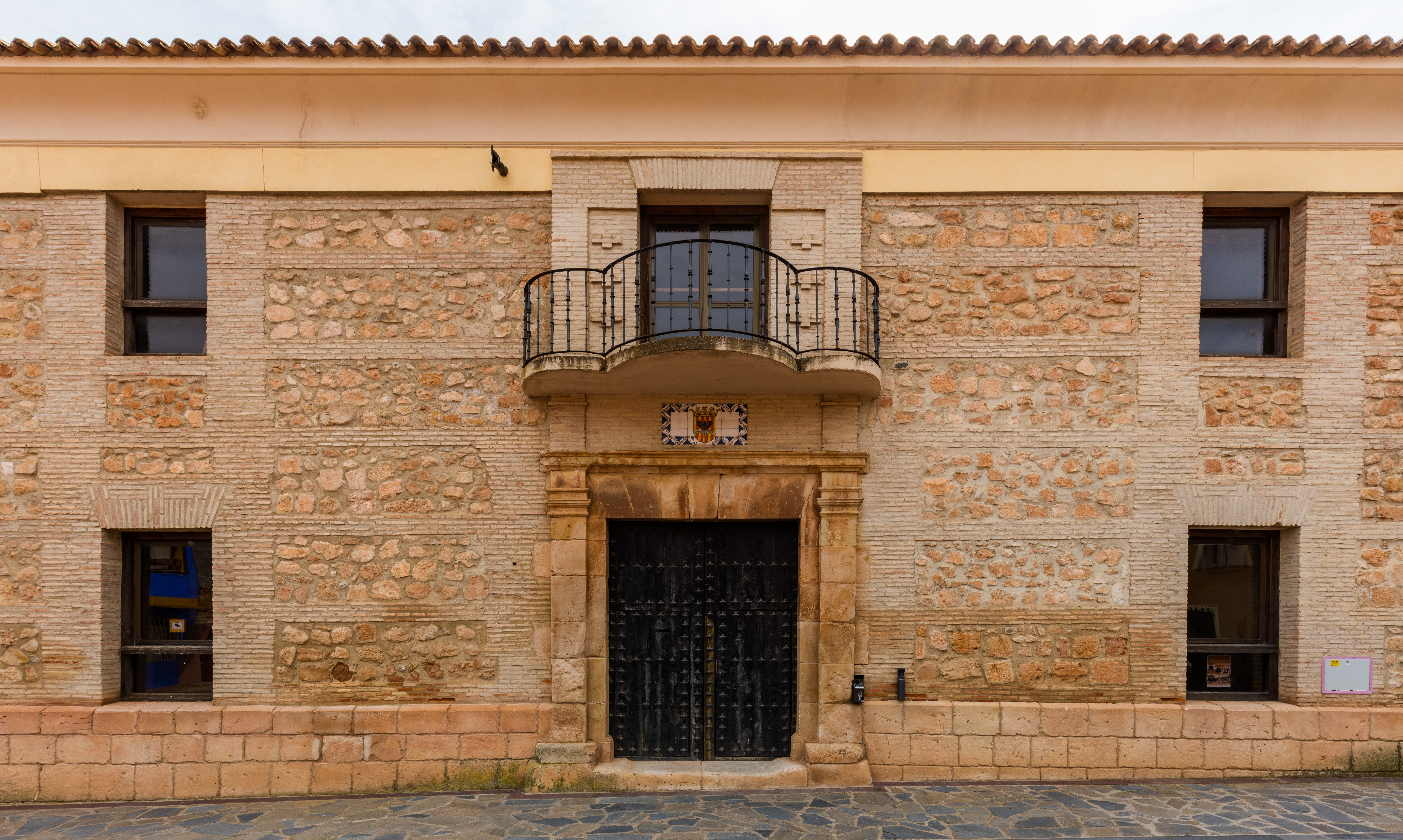 Palace house of the Marquess of Ariza, Ariza, Zaragoza, Spain